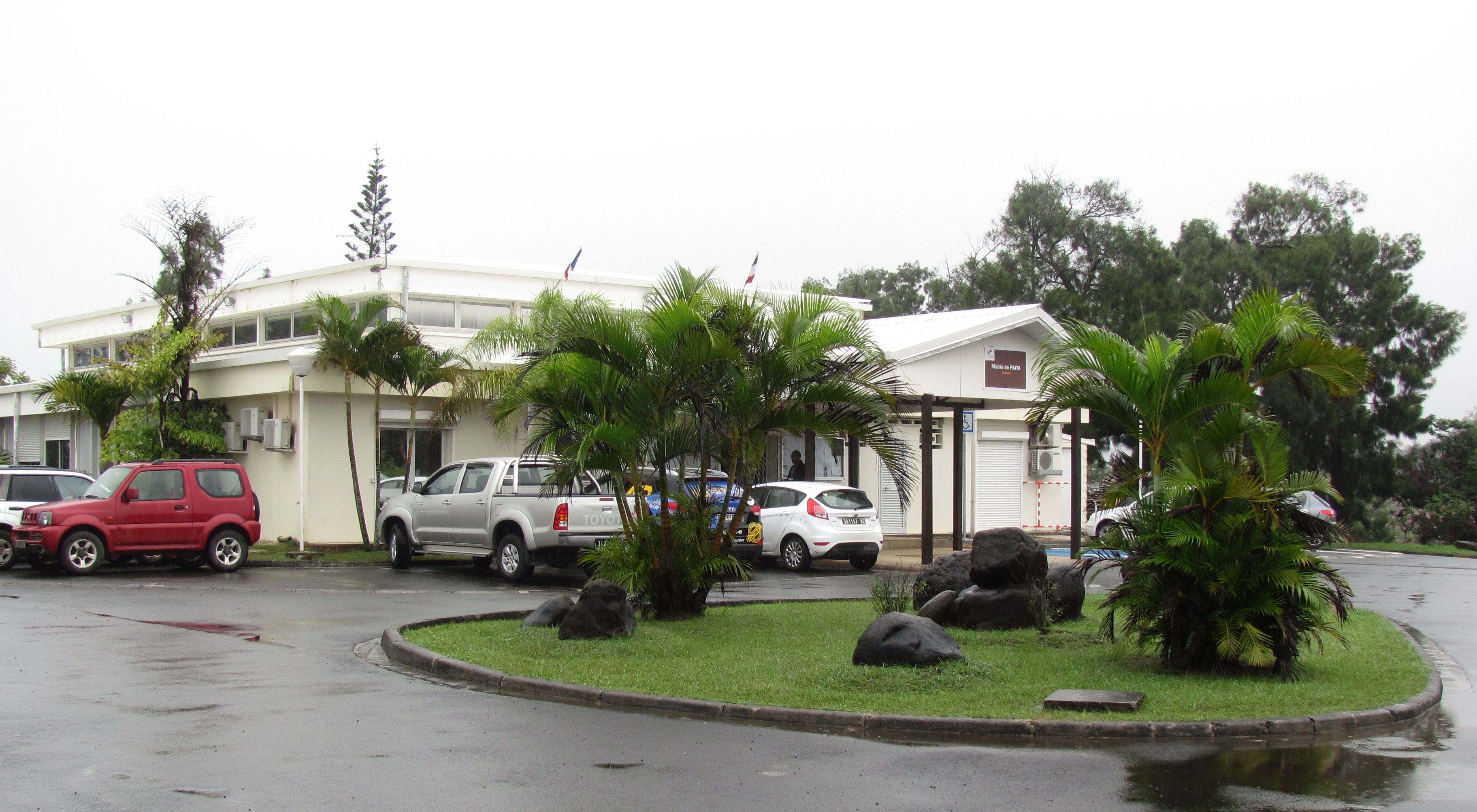 Town Hall, Païta, New Caledonia